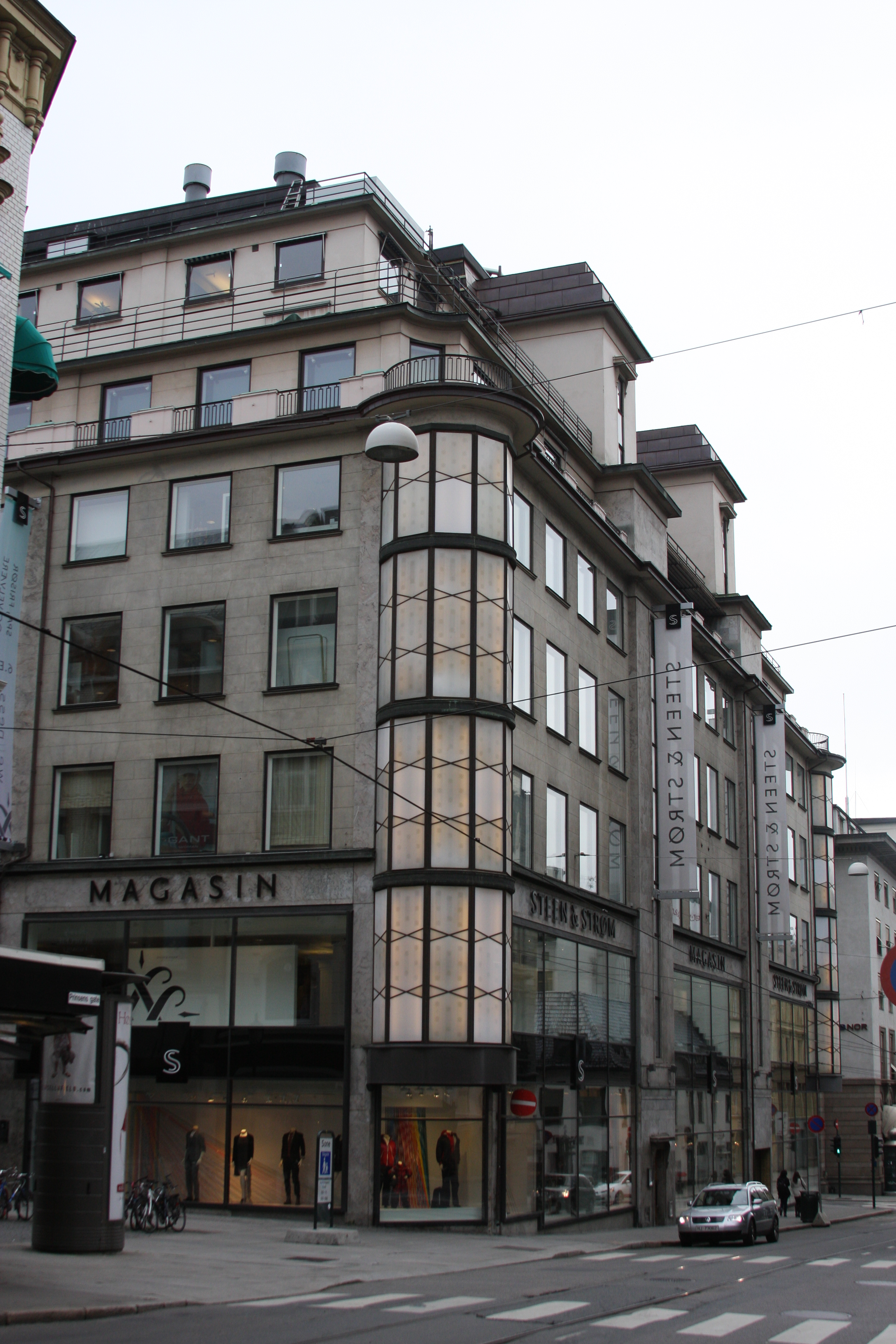 Steen & Ström main shoppin centre, Oslo